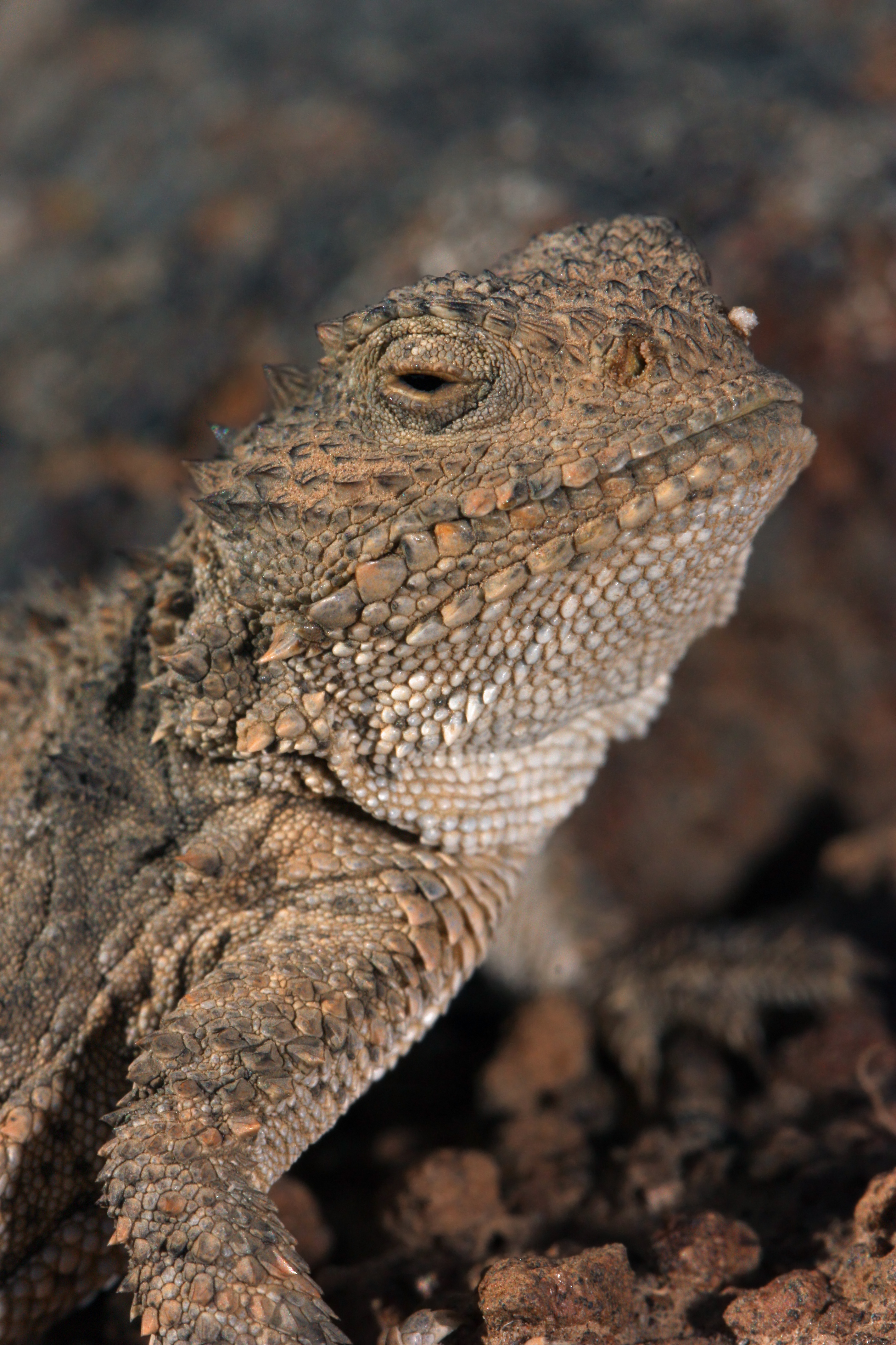 Pygmy Short-horned Lizard Viewpoint location: Unnamed and unimproved road, Whiskey Dick Unit, L.T. Murray Wildlife Area Viewpoint elevation: 684 meter (2245 ft) Location source: Garmin GPSmap 60CSx Location Datum: WGS84